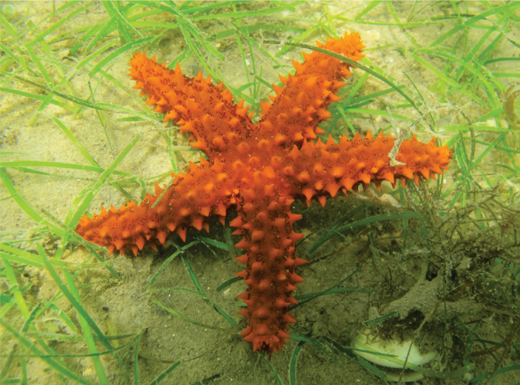 Echinaster (Othilia) echinophorus in seagrass beds